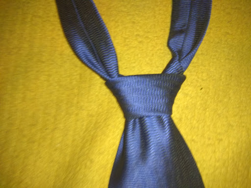 A picture of a Pratt Knot preformed on a blue tie, pictured on a sofa.